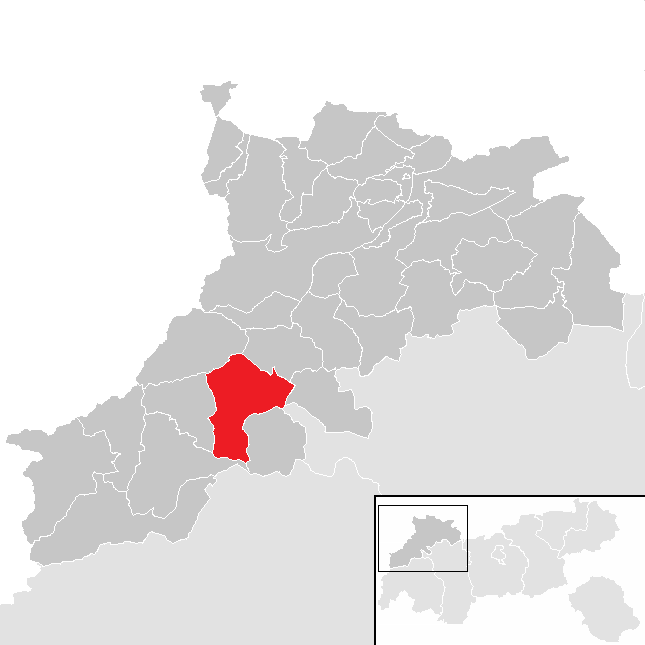 District Reutte